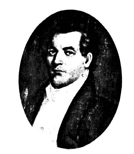 John Alexander, member of the United States House of Representatives from Xenia, Ohio. Seen in image from Greene County Historical Society.